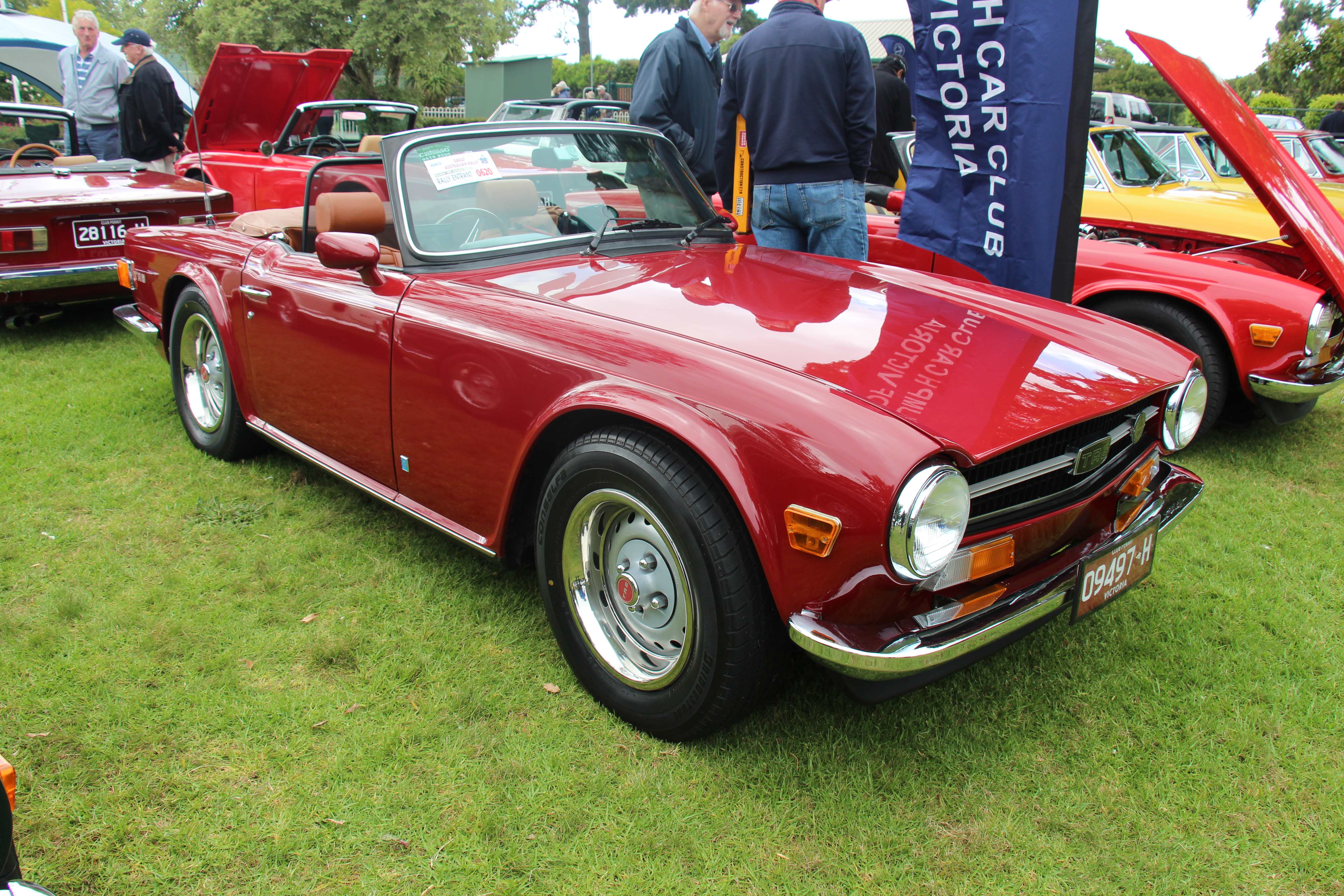 These Triumph TR range of Sports cars were built between 1953 and 1981 in the UK. Changes from the TR2 to the TR6 were mostly evolutionary, with a change from a live axle to independent rear suspension in 1965 and a change from a four cylinder engine to a six cylinder engine in 1967. The TR6 was built from 1969-76, it was similar to the TR5, it got its 2500cc 6 cyl, the body got a minor update, mainly to the front and rear, they were squared off for a typical 70s look. It was still available with a fuel injected engine in Europe and twin carby version in the US. Engine; 2496cc 6 cyl.